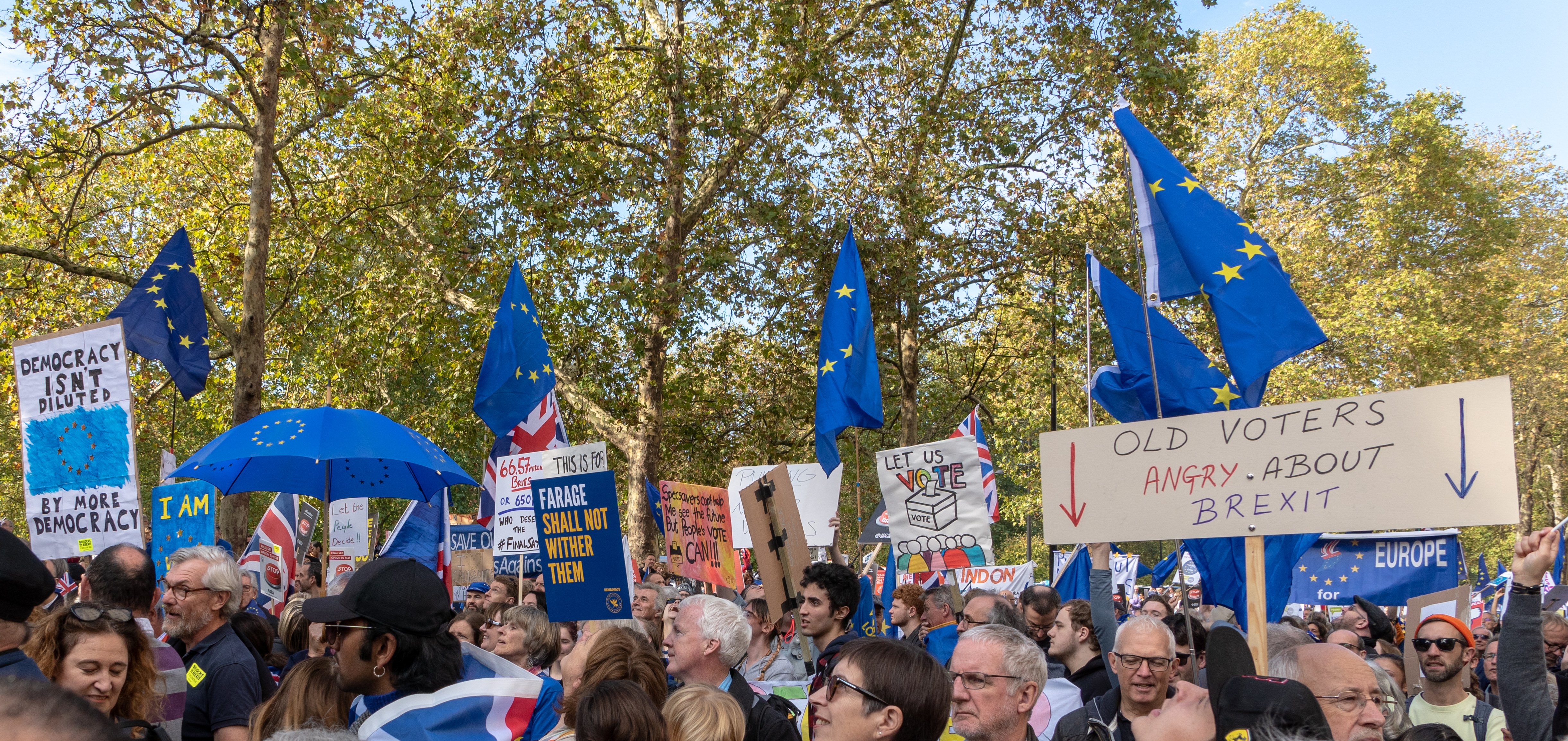 People's Vote March 20 October, 2018.